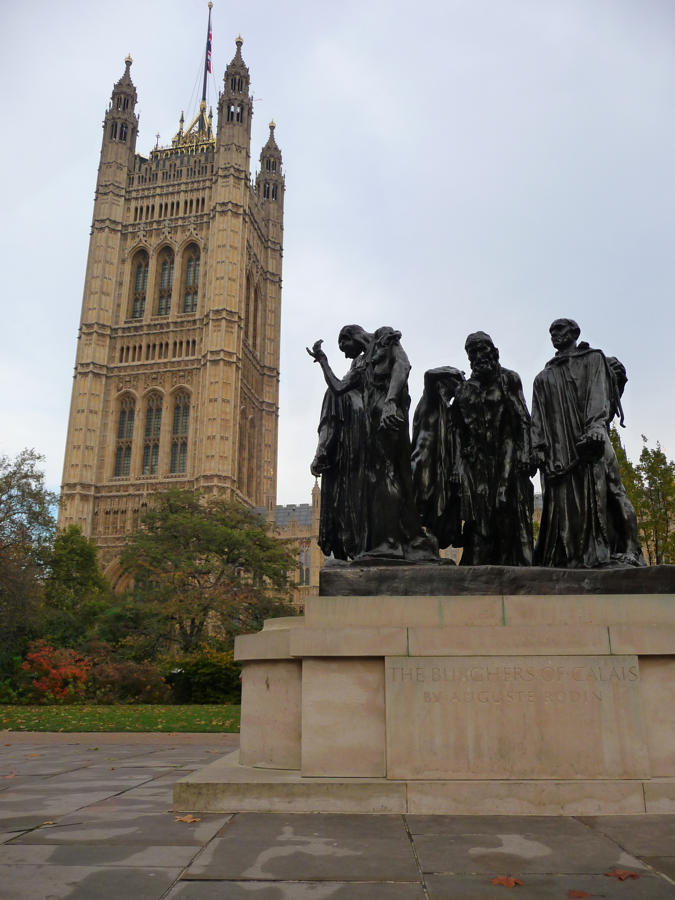 Copy of The Citizens of Calais by Rodin, London